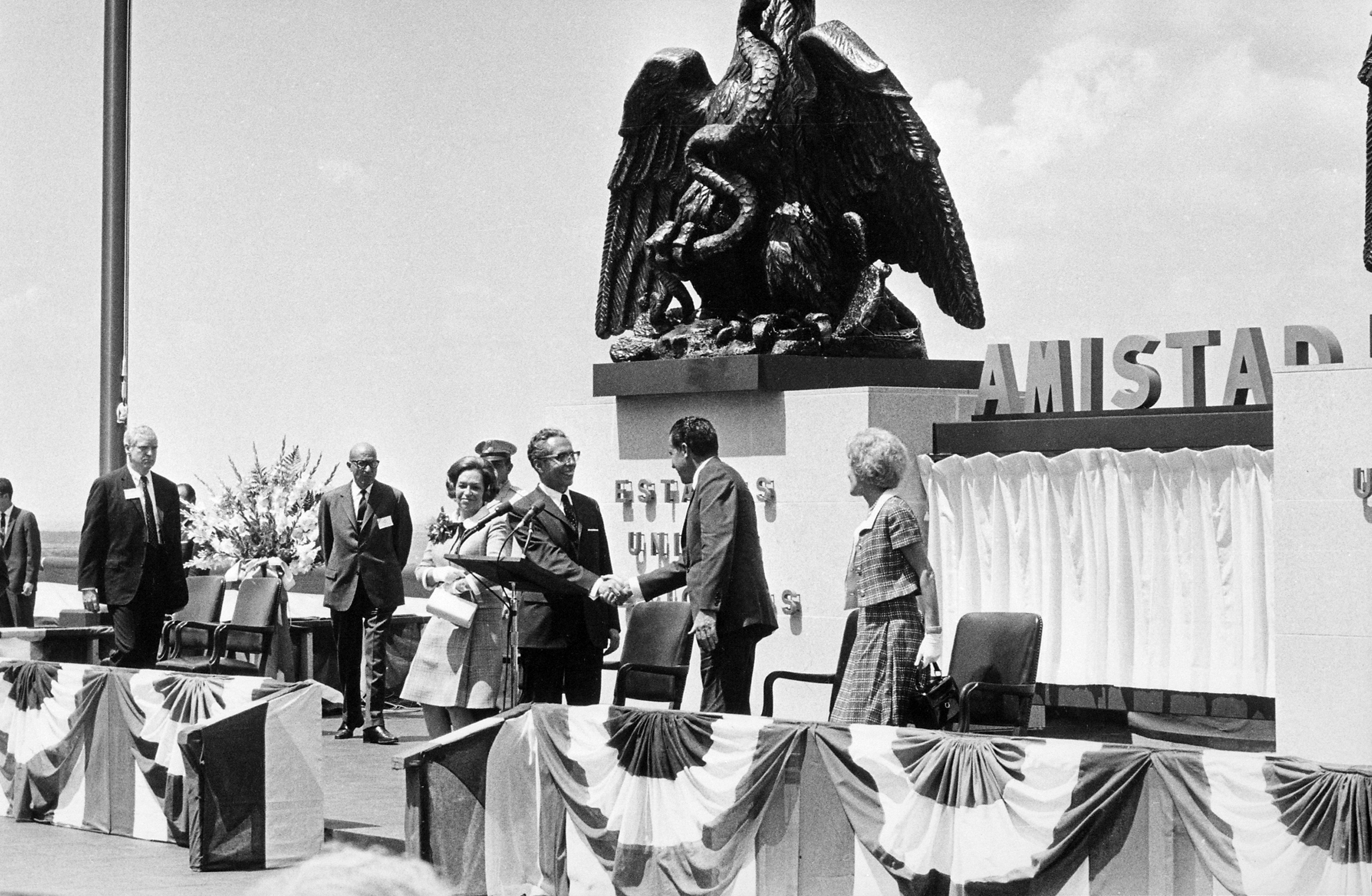 Mexican president Gustavo Díaz Ordaz (left) and U.S. President Richard Nixon (right) shaking heands at Lake Amistad.